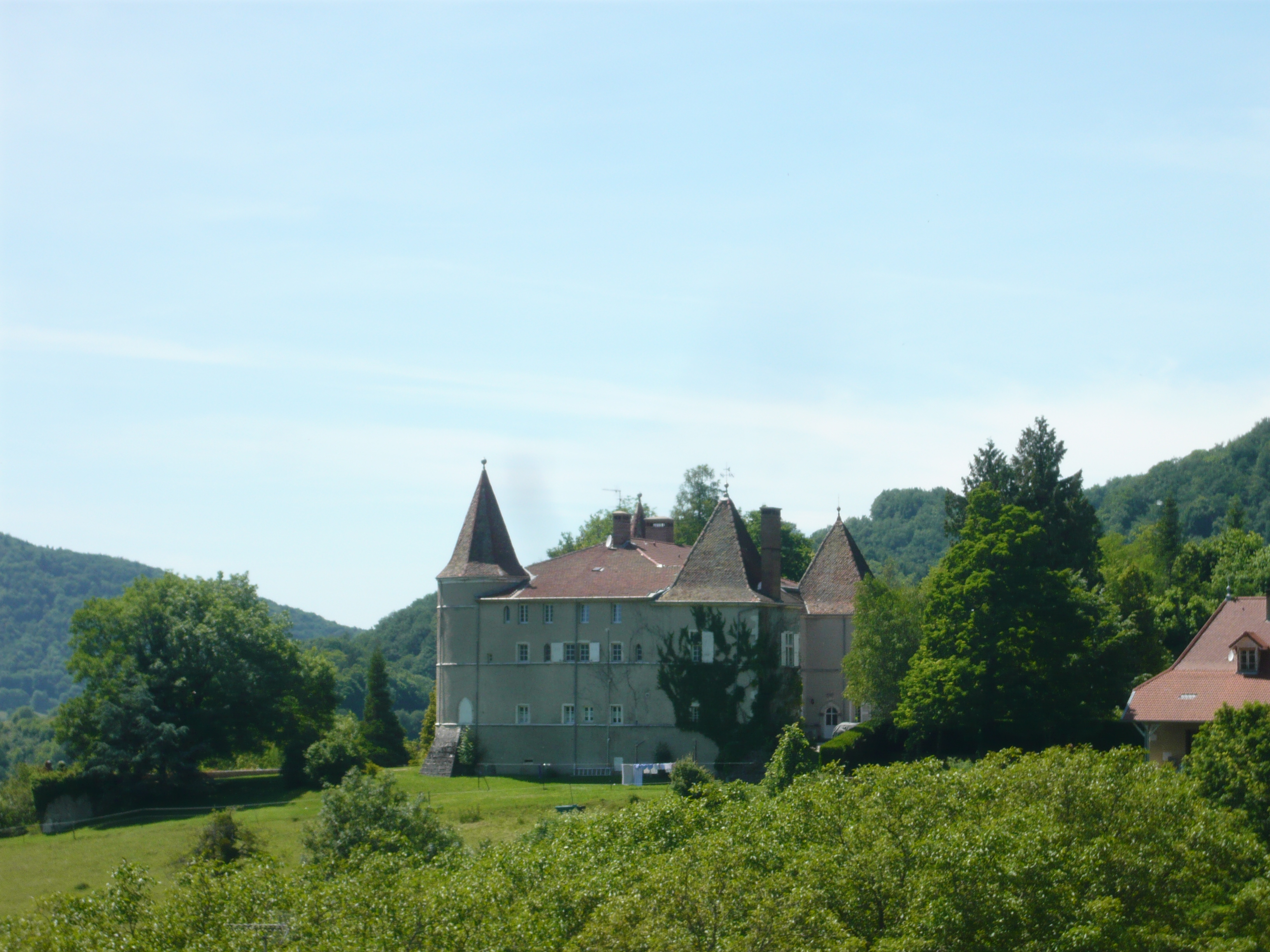 Castle of Hautefort, commune of Saint-Nicolas-de-Macherin (France). June 2012